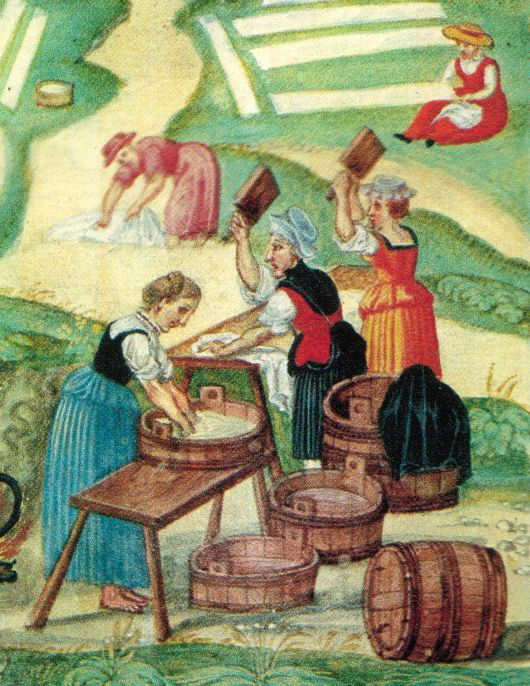 The great washday before the city, illustrating women's work, from the alchemical handbook Splendor Solis, 1531 (detail).